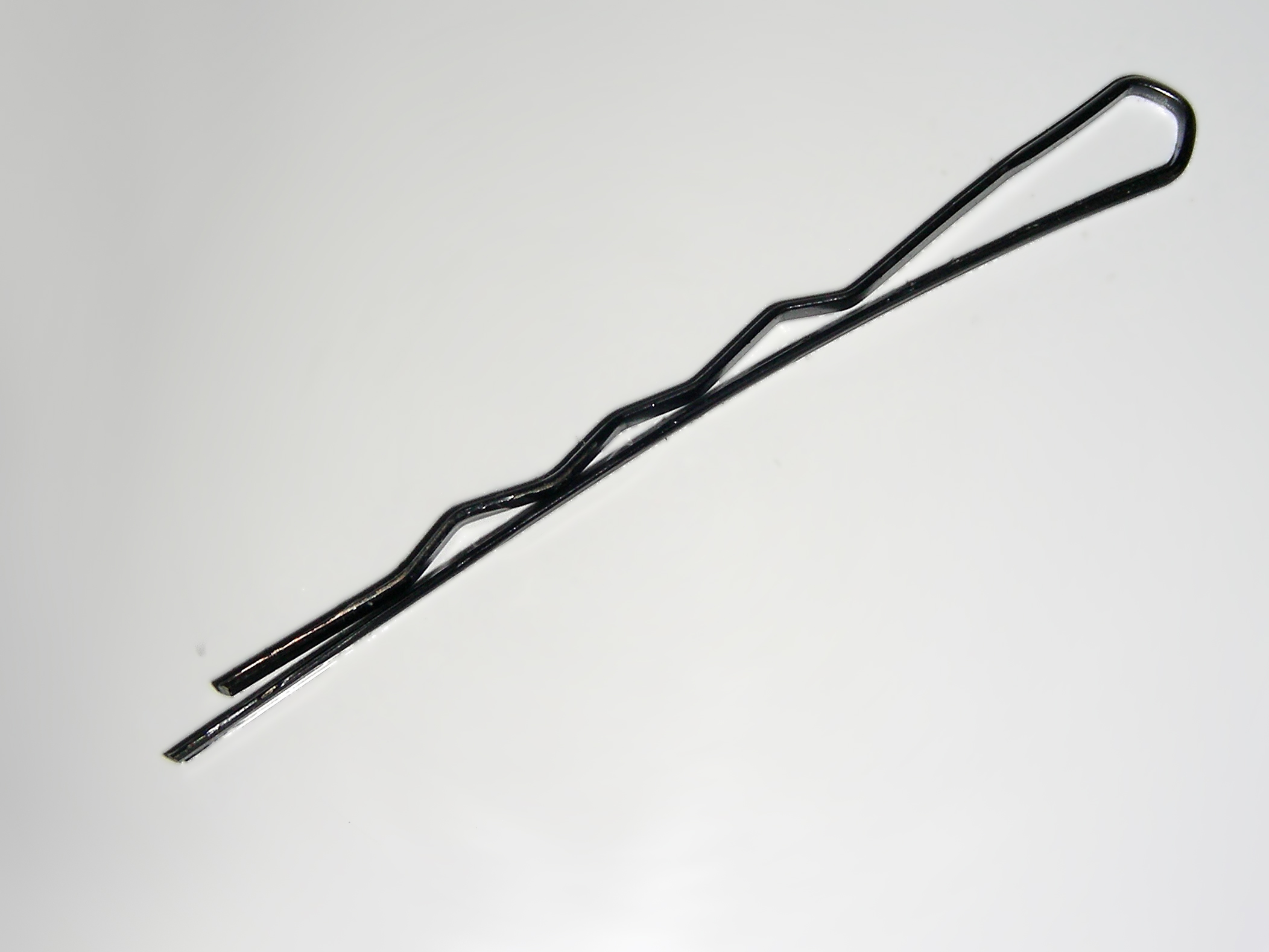 hairpin, hairgrip